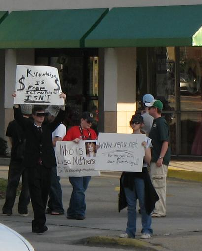 February 2, 2008 "Anonymous" protest of Church of Scientology in Orlando, Florida as part of Project Chanology. Protest signs read "Knowledge is Free Scientology Isn't", "Who Is Lisa McPherson", and "